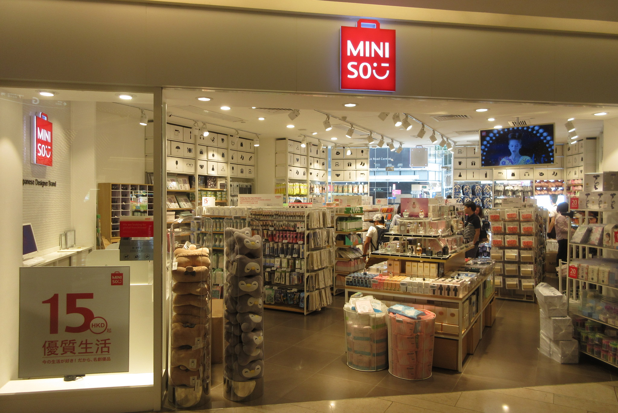 HK 上環 Sheung Wan 無限極廣場 Infinitus Plaza shop in October 2017